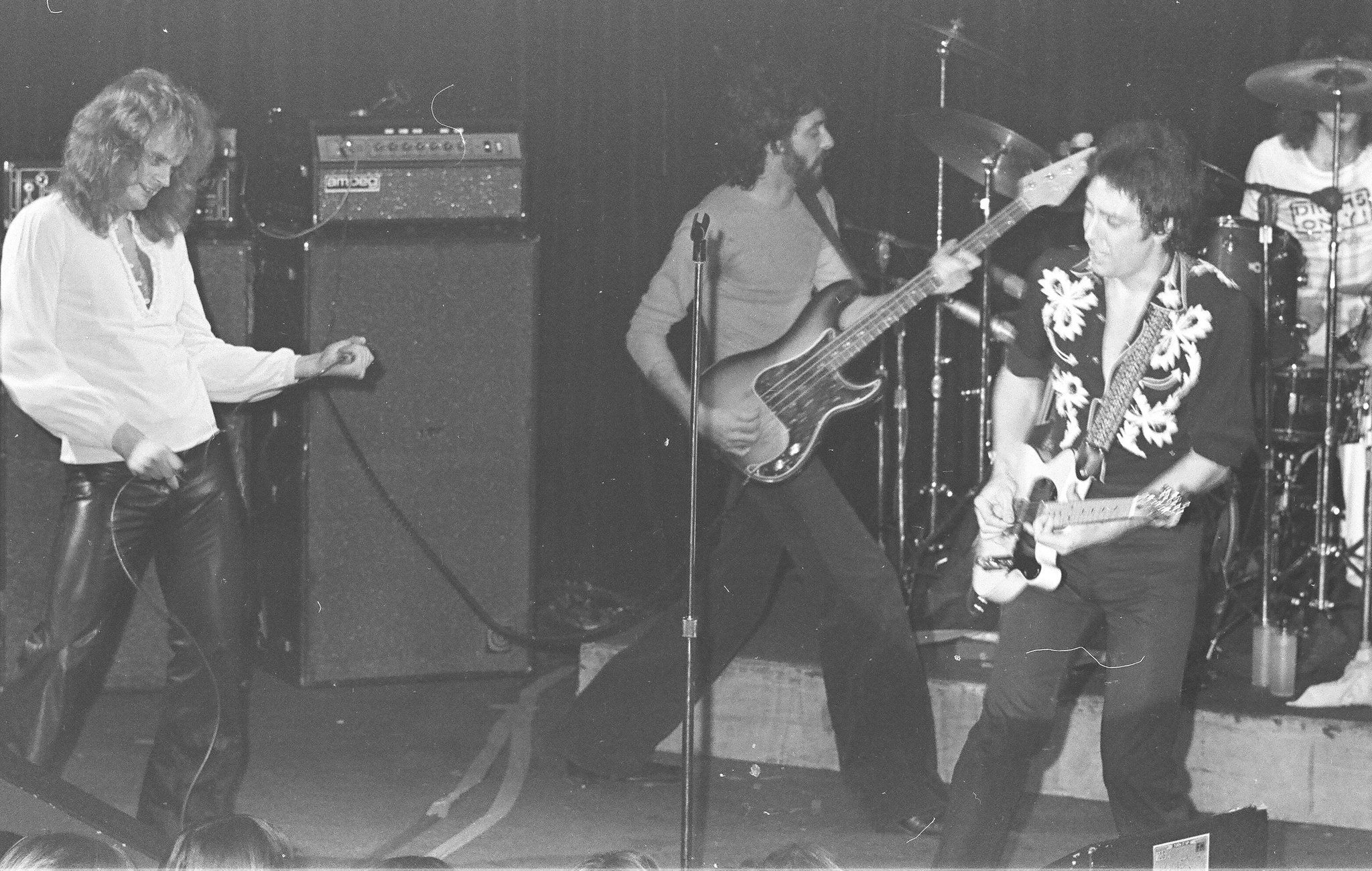 Prism performing at Whisky a Go Go in 1977.